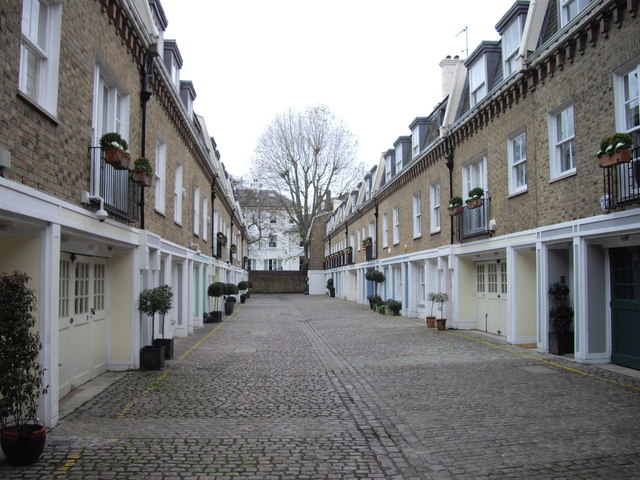 Redcliffe Mews Chelsea The bulk of the houses in Redcliffe Mews are designed by Christopher Bowerbank